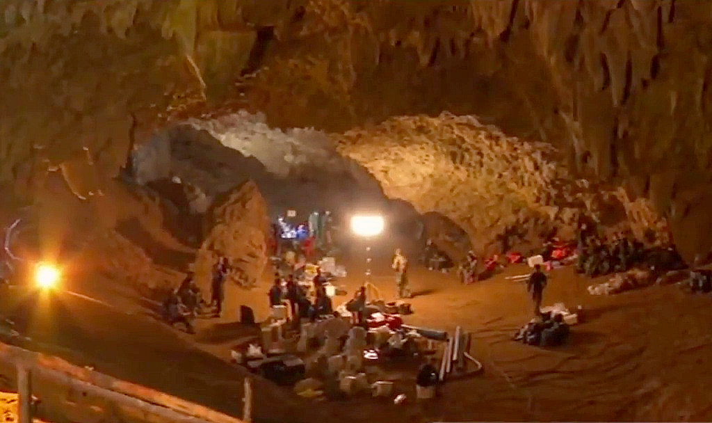 Personnel and equipment in the entrance chamber of Tham Luang cave during rescue operations during 26–27 June 2018. Screen capture from NBT news report.